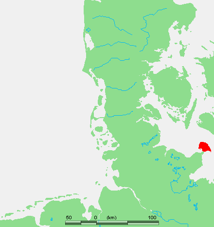 Locator map of Fehmarn